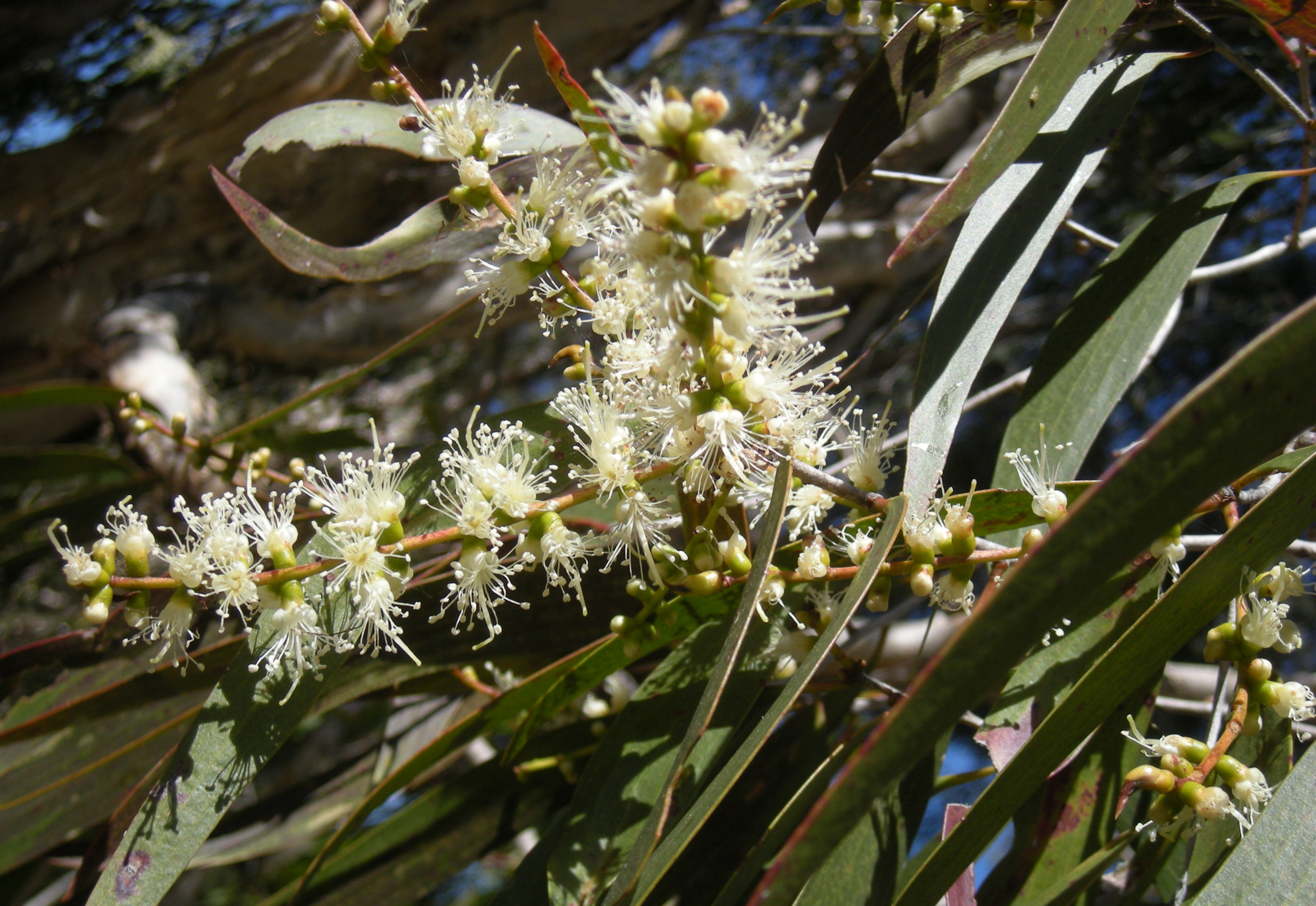 Melaleuca leucadendron flowers, Mount Archer National Park, Rockhampton, Queensland.